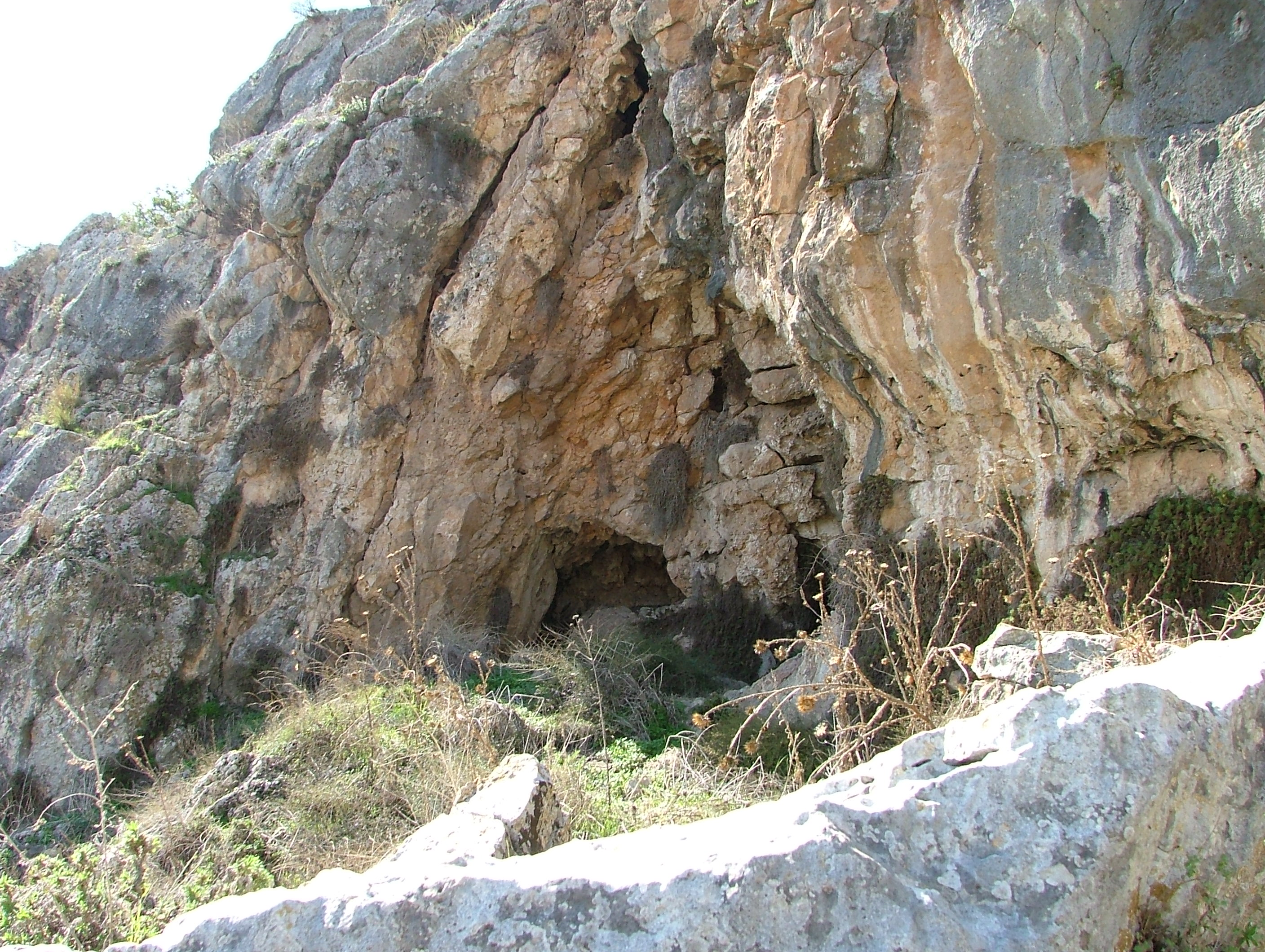 caves on the northern slope of the carmel mountain